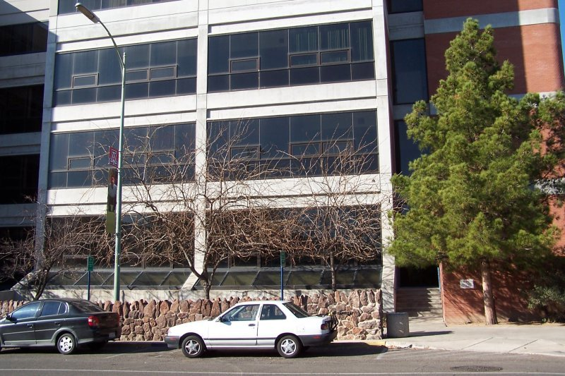 Vatican Observatory Research Group (hosted in the Steward Observatory at the University of Arizona)